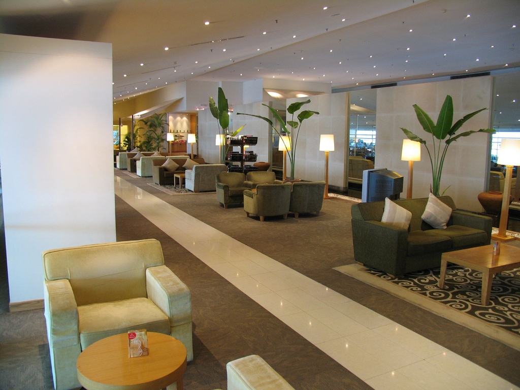 Taken in Golden lounge